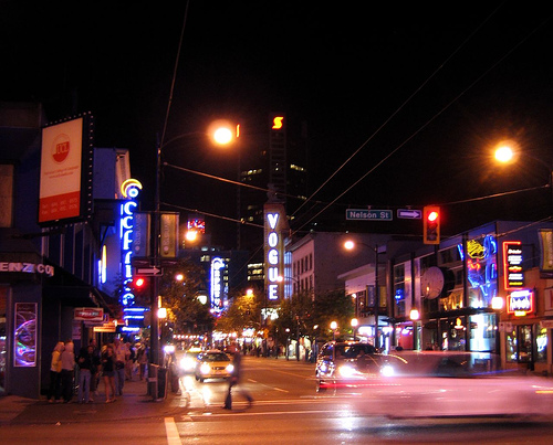 Vancouver Nightlife - Nelson and Granville St.